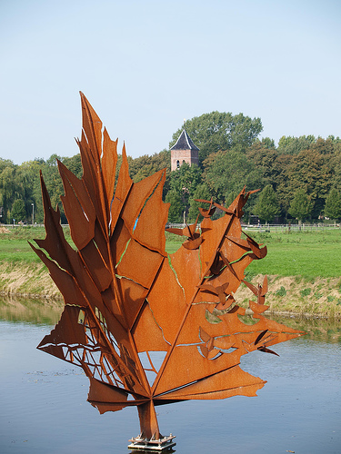 The Maple Leaf monument at the Bevrijdingsbos. In the background you can see the church of Noorddijk.